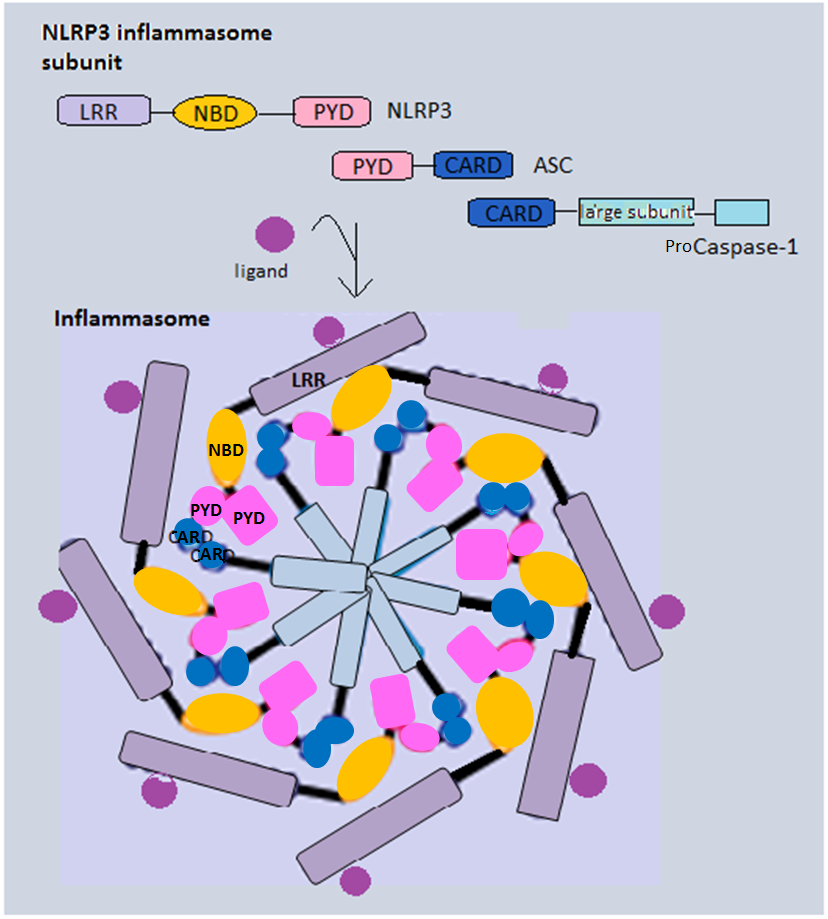 Inflammasome, a multiprotein complex that mediates the activation of Caspase-1. Dysregulation of inflammasomes has also been linked to a number of autoinflammatory and autoimmune disorders.